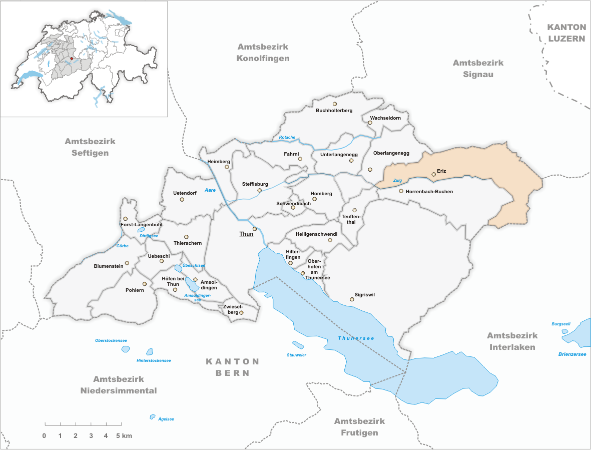 Municipality Eriz